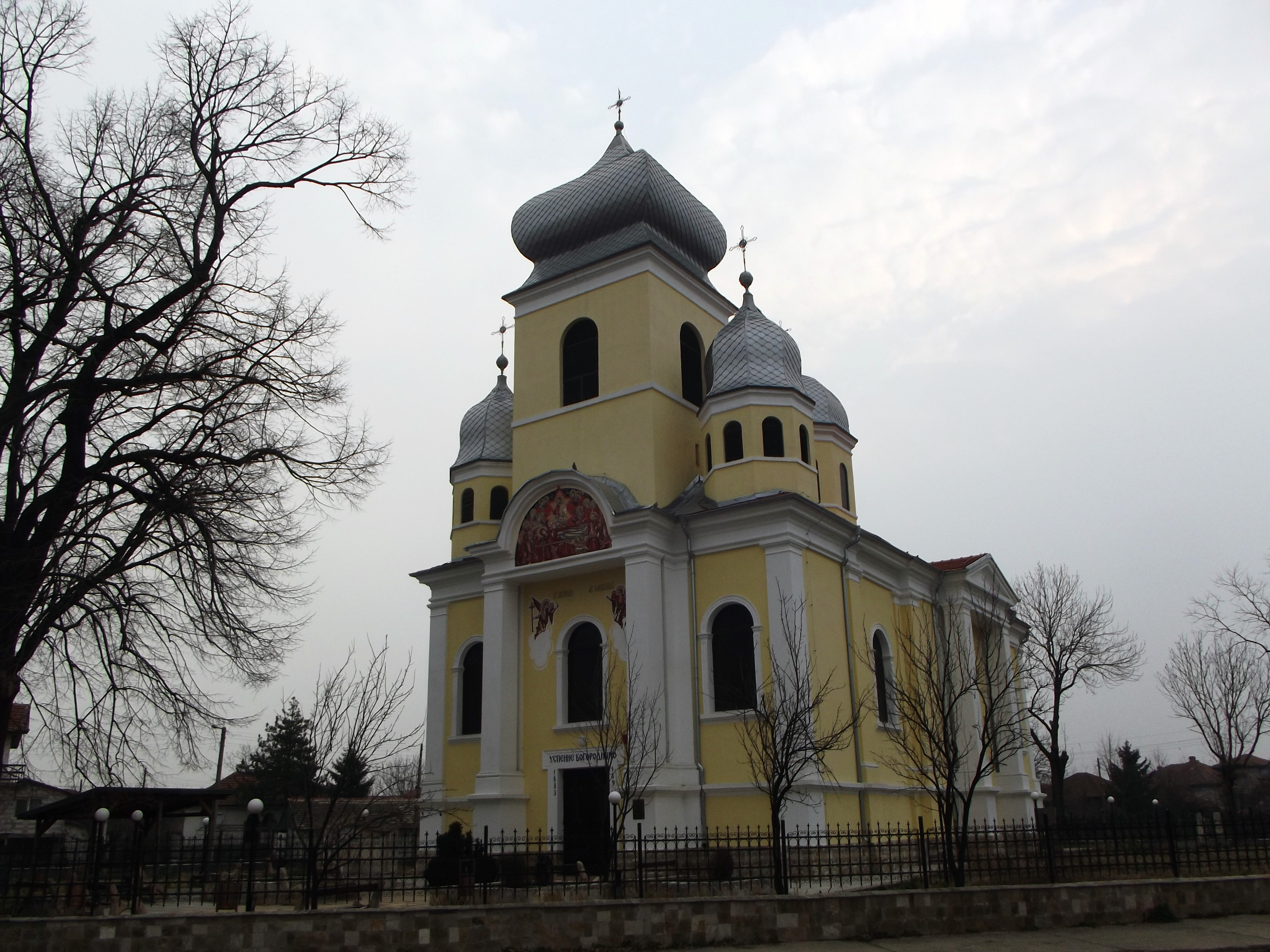 Assumption of Mary